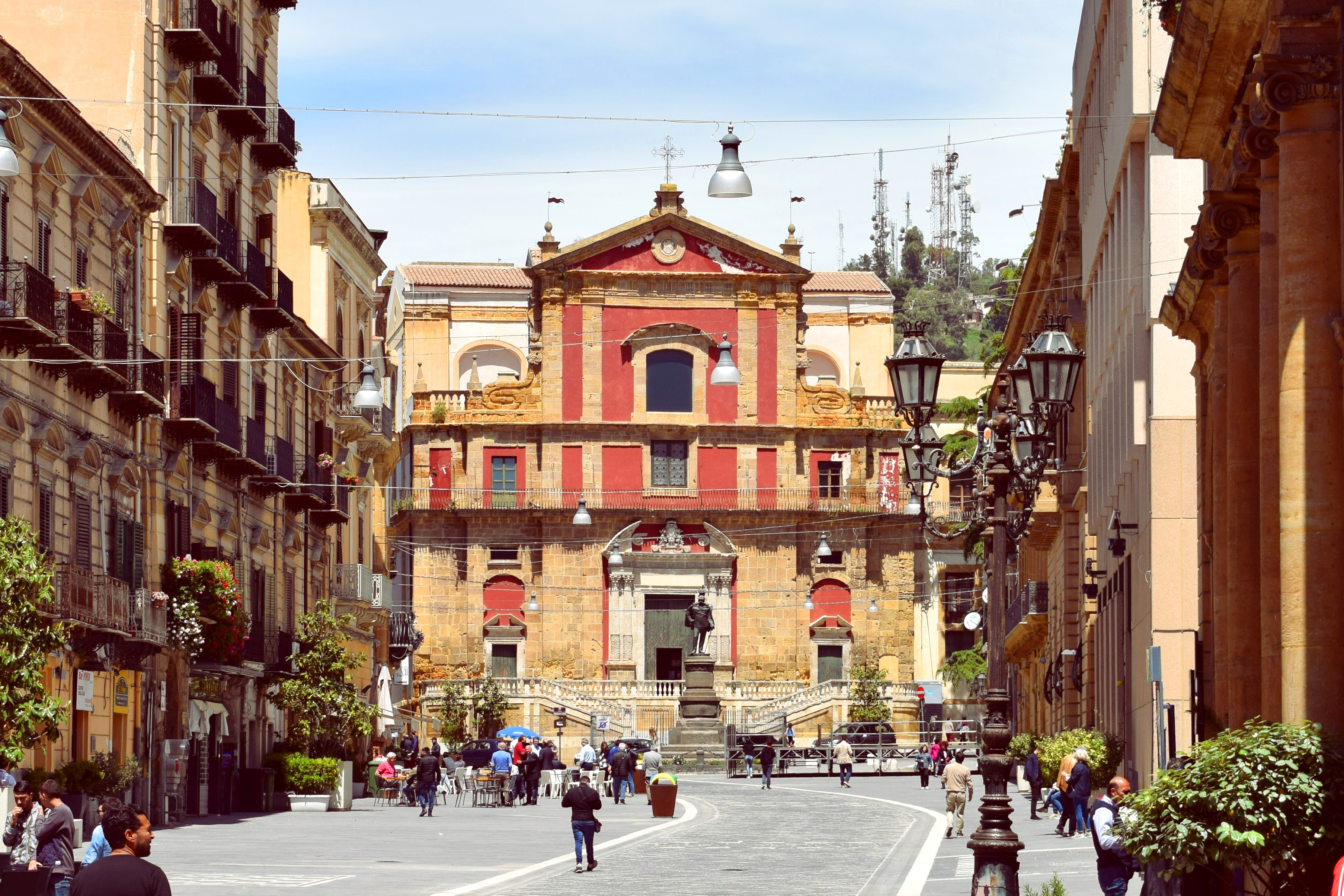 Facade of the church of Sant'Agata ("Saint Agatha") al Collegio and partly view of Corso Umberto I in Caltanissetta, Italy